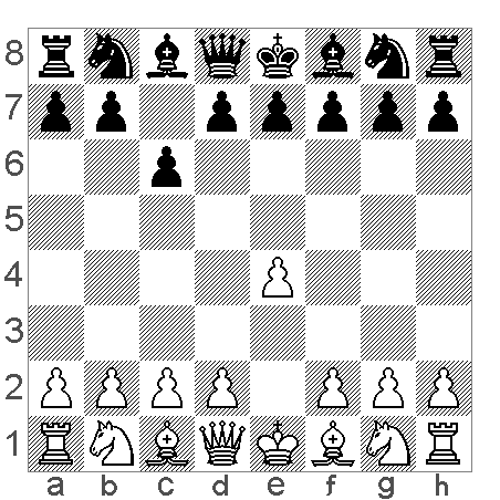 chess diagram CaroKann defence Source: CBlight + my processing